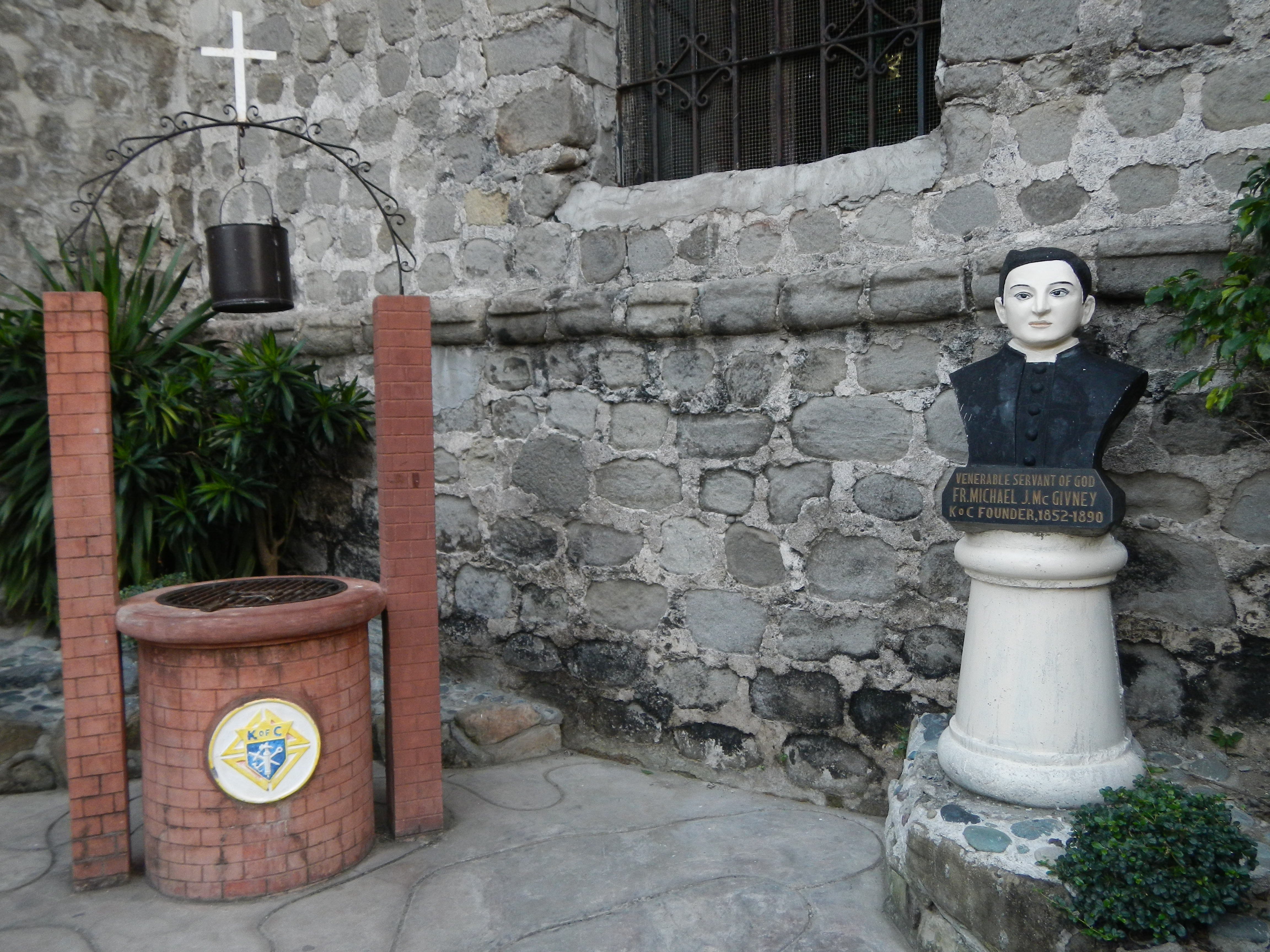 (F-1587) Sts. Peter & Paul Parish Church, Diocese of San Fernando de La Union (Dioecesis Ferdinandopolitana ab Unione) Suffragan of Lingayen – Dagupan Created: January 19, 1970. Erected : April 11, 1970. Comprises the Civil Province of 2501 La Union Titular: St. William the Hermit, February 10. Vicariate of St. Peter the Apostle Vicar Forane: Fr. Frederick R. Ferrer Bauang, (F-1587) 2501 La Union Sts. Peter & Paul, June 29 Parochial Vicar: Fr. Leo C. Nedic Tel.:(072) 705-12-45 Bauang, La Union[1][2]